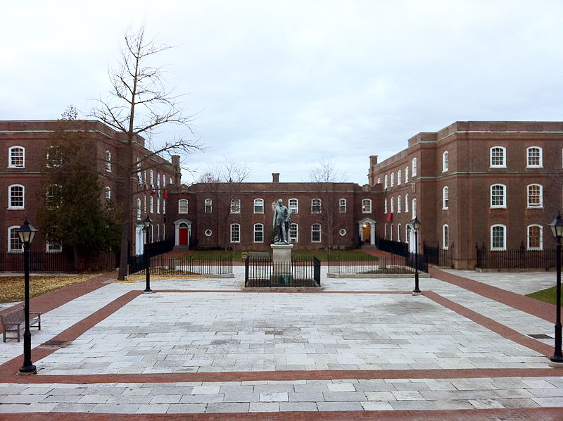 Massey Quadrangle at Upper Canada College